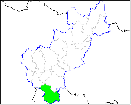 Image depicting a map of the State of Queretaro with the municipality of Amealco highlighted.